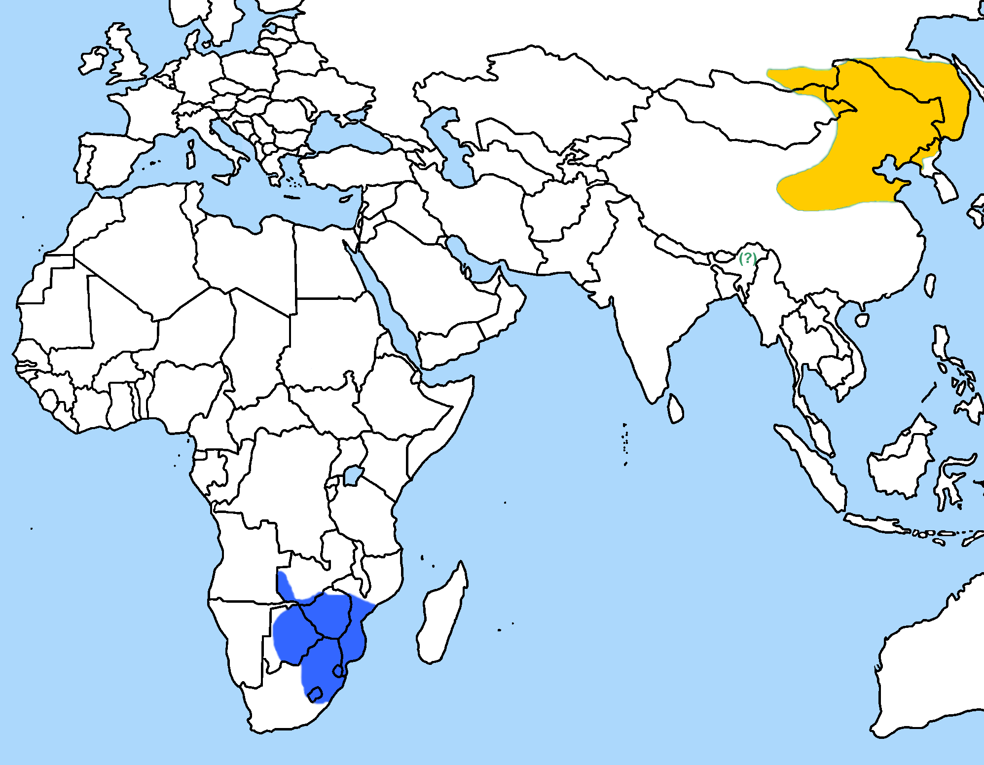 Author is Ulrich Prokop (Scops) Drawn after distribution maps in: Ferguson-Lees & David A. Christie: Raptors of the World. Houghton Mifflin Company Bostand and New York 2001. pp 867 and 276.